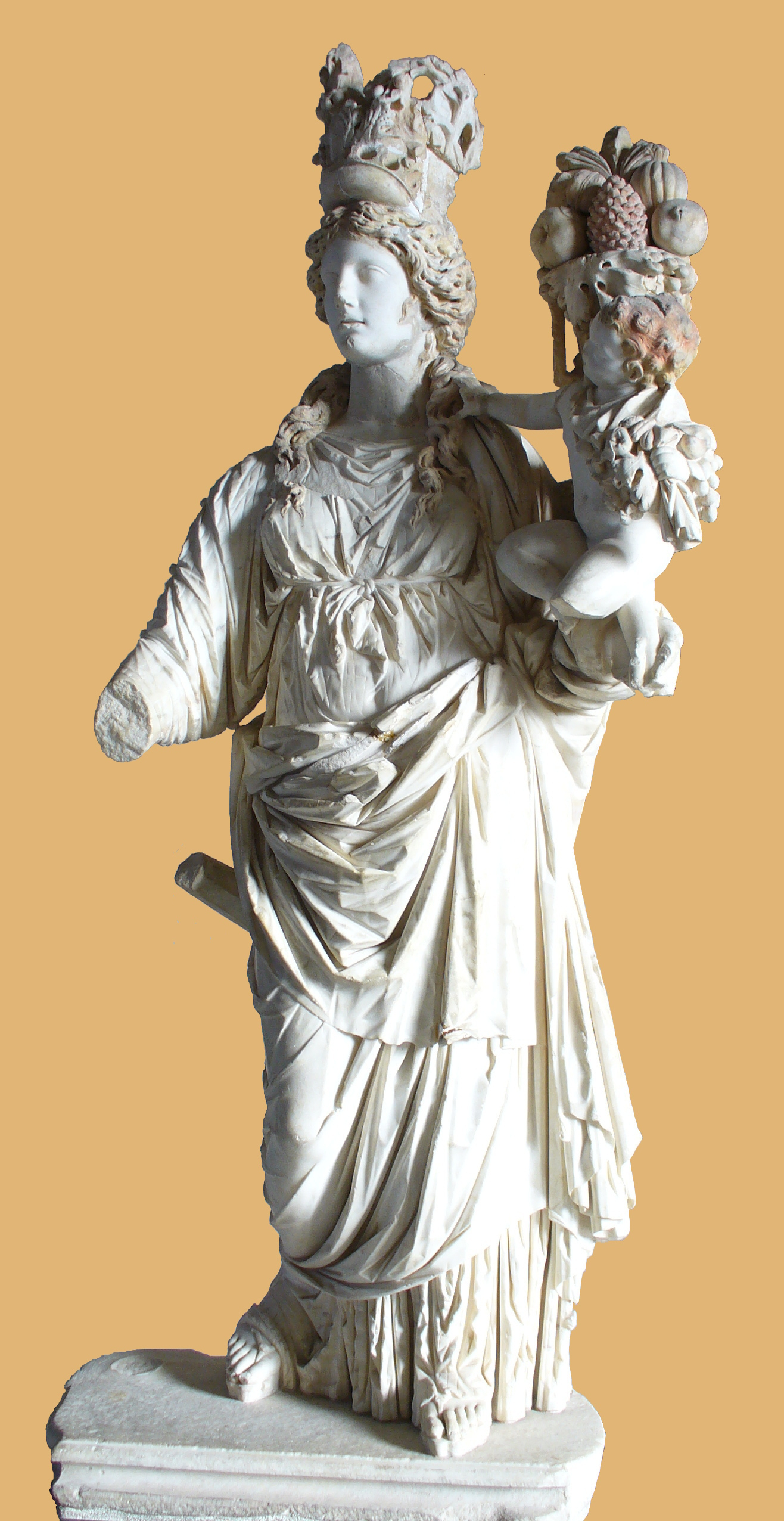 Istanbul Archaeological Museum - The goddess Tyche holding in her arms Plutus (god of wealth) as a child. Hellenistic art, Roman period, 2nd century AD. From Prusias ad Hypium (in the present-day il of Düzce). The coloring of the hair is remarkably well preserved.